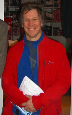 Peter Duncan cropped from an image titled 'Peter Duncan Plastered 2006'